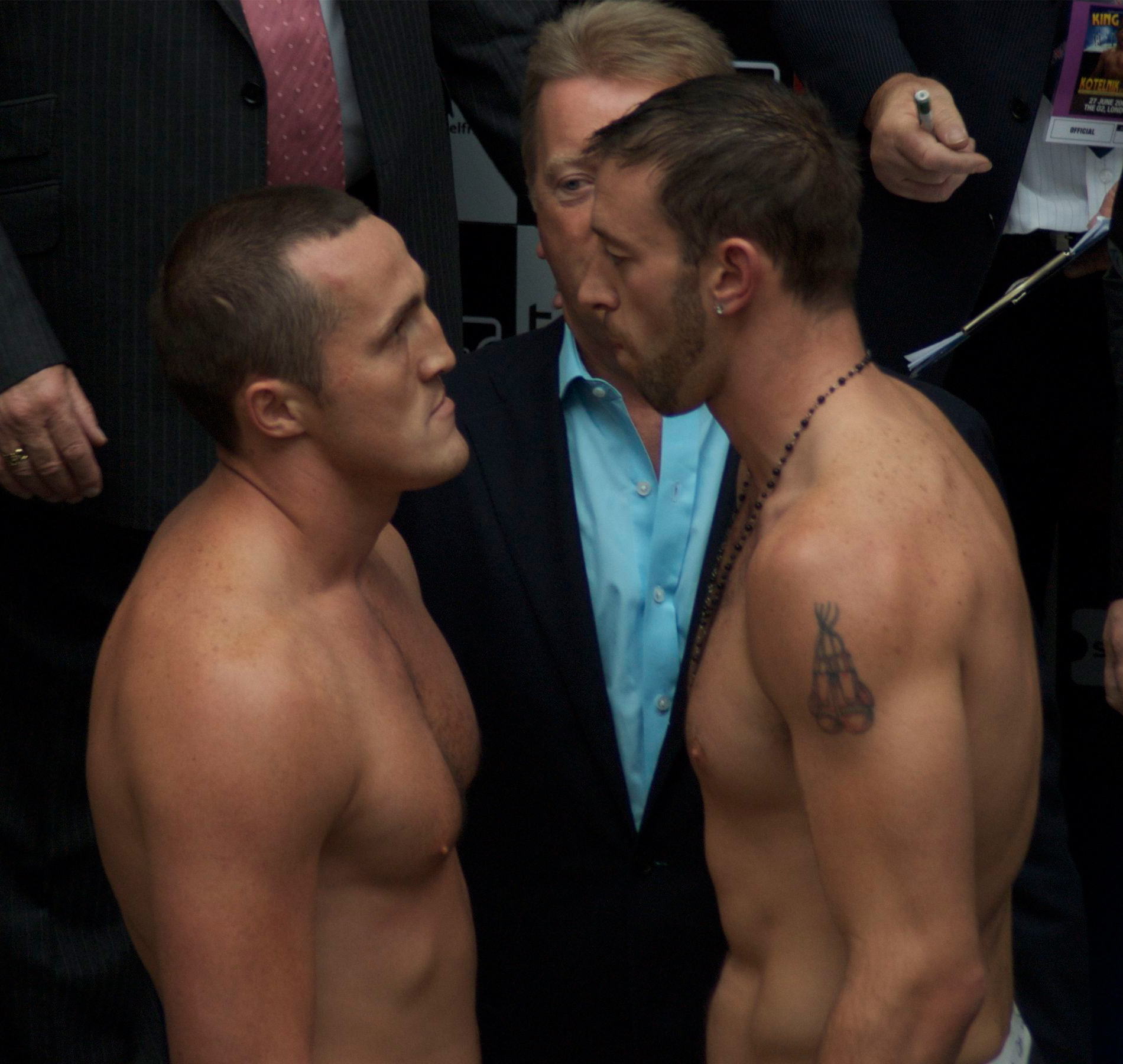 Denis Lebedev and Enzo Maccarinelli squaring off at the weigh in for their cruiserweight fight. Friday 17th July, Manchester, England.